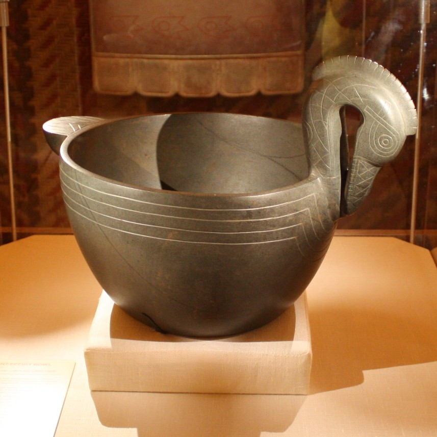 Carved diorite bowl in the form of a crested wood duck. Excavated at the Moundville Archaeological Park in Moundville, Hale County, Alabama, United States. Found in a ridge north of Mound R. Currently housed onsite in the Jones Archaeological Museum.